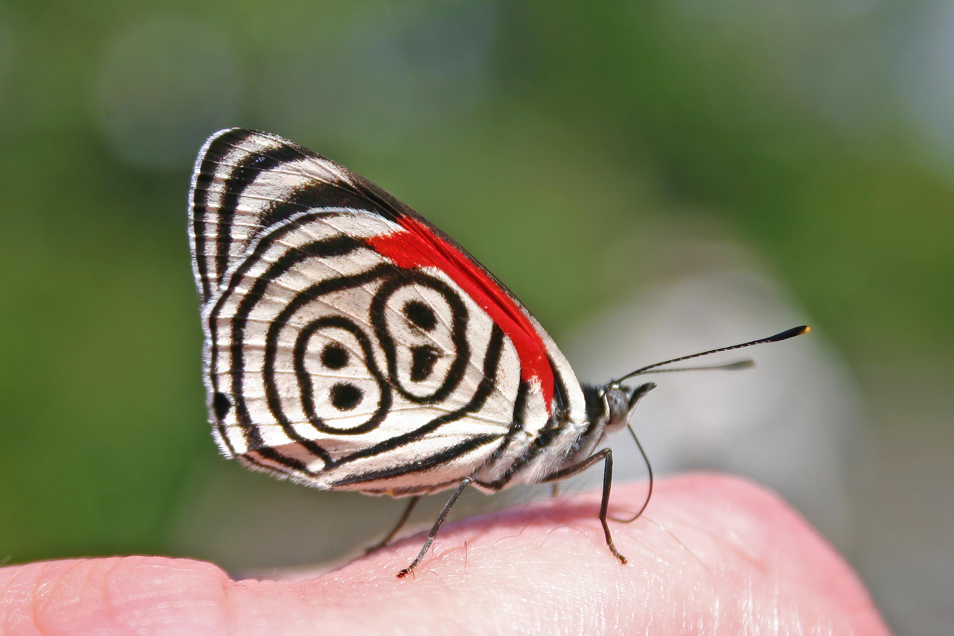 Anna's eighty-eight Butterfly (Diaethria anna). Photograph taken above the Iguazú Falls in Argentina